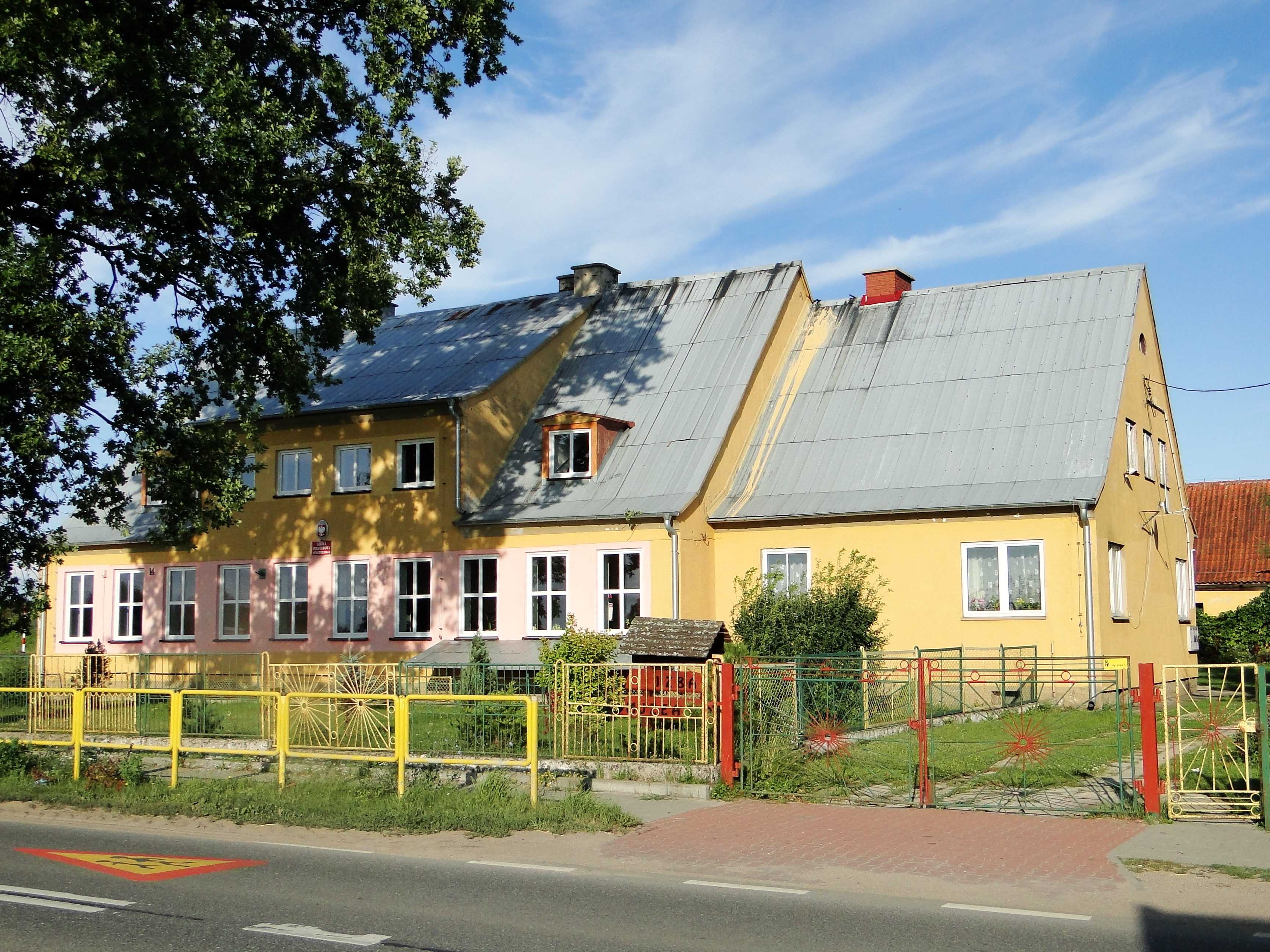 Primary School in Stare Kiełbonki